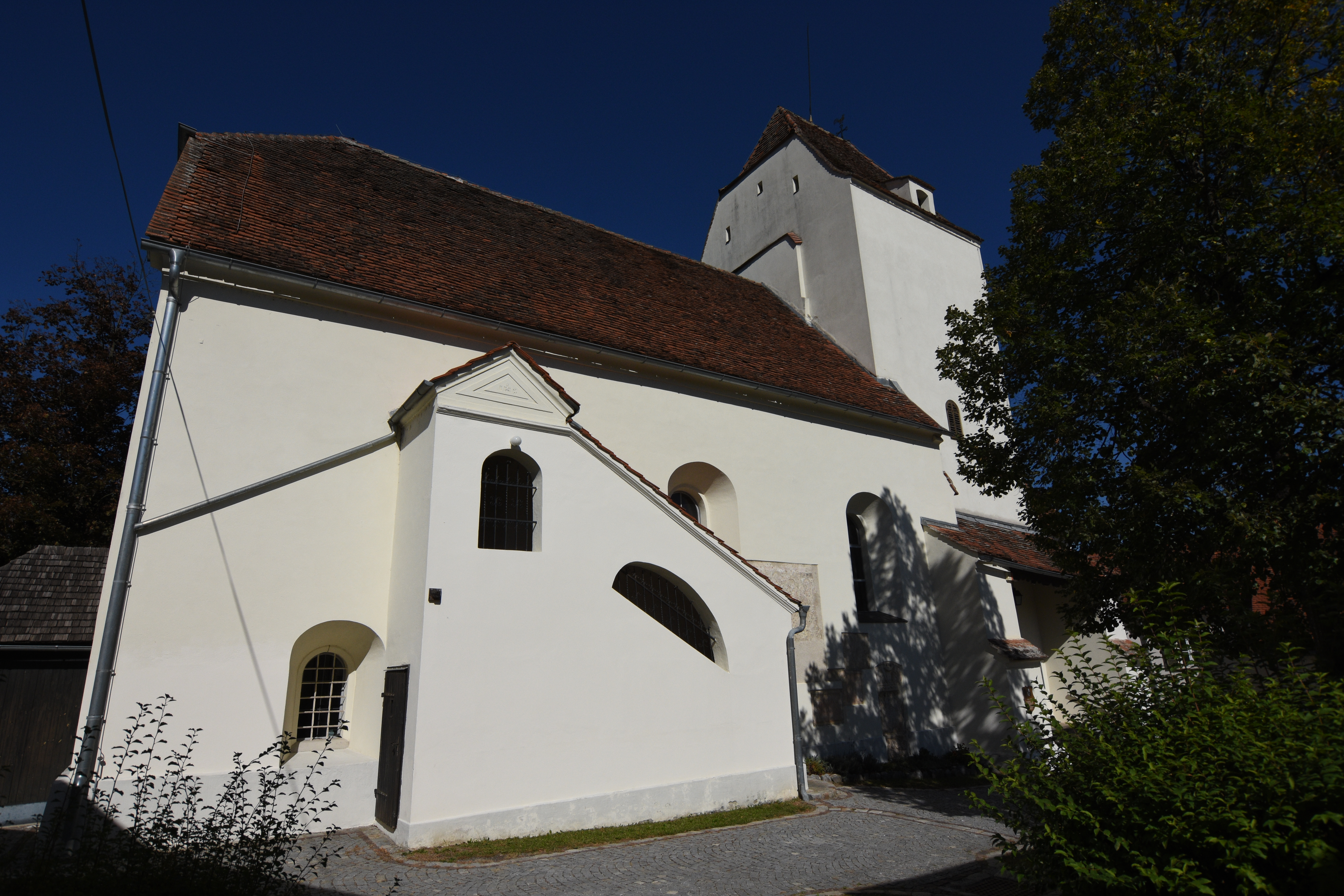 Taborkirche (Weiz)